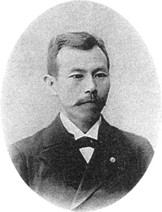 M. Kawakita, Professor of Applied Chemistry.